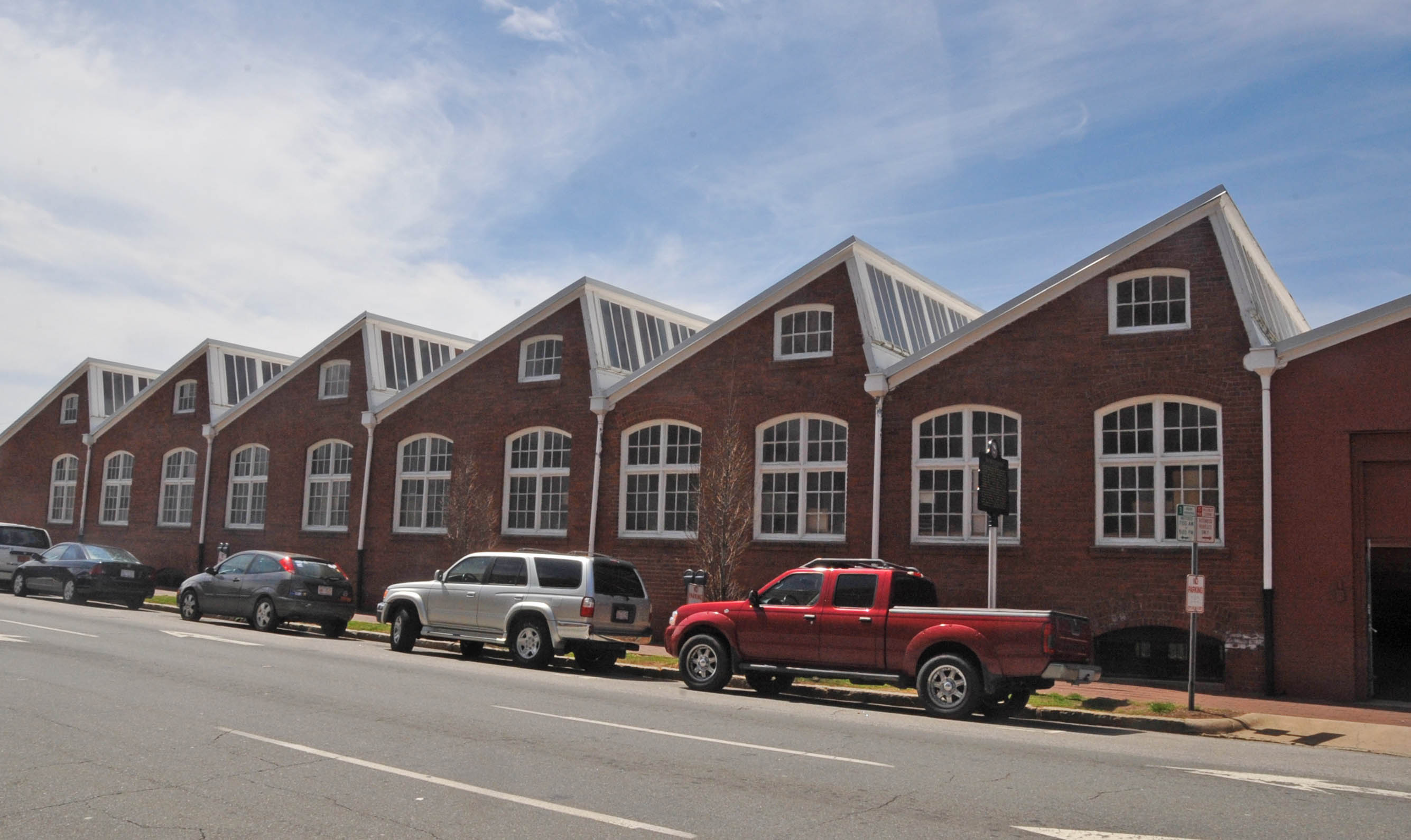 SHAMROCK MILLS BUILT BY THE HANES HOISERY EMPIRE. THE FACTORY ORIGINALLY MADE COTTOM SOCKS FOR CHILDREN AND MEN BUT IN 1914 SWITCHED TO COTTON HOISERY FOR WOMEN. THE SAWTOOTH ROOF CONFIGURATION WAS DESIGNED TO FACE NORTH AND ALLOW MAXIMUM LIGHT INTO THE FACTORY